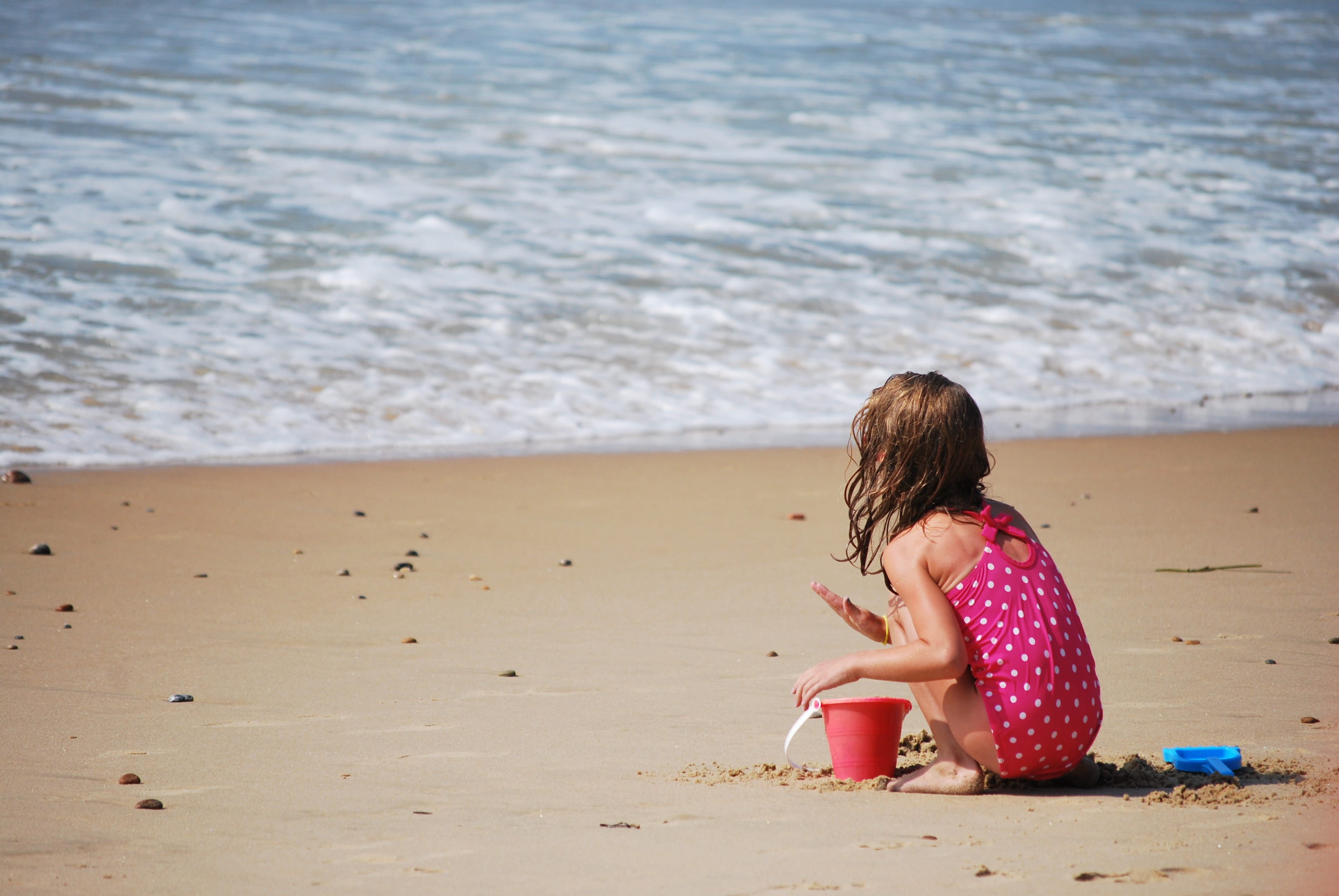 A female child playing in the sand at Misquamicut Beach, Rhode Island.